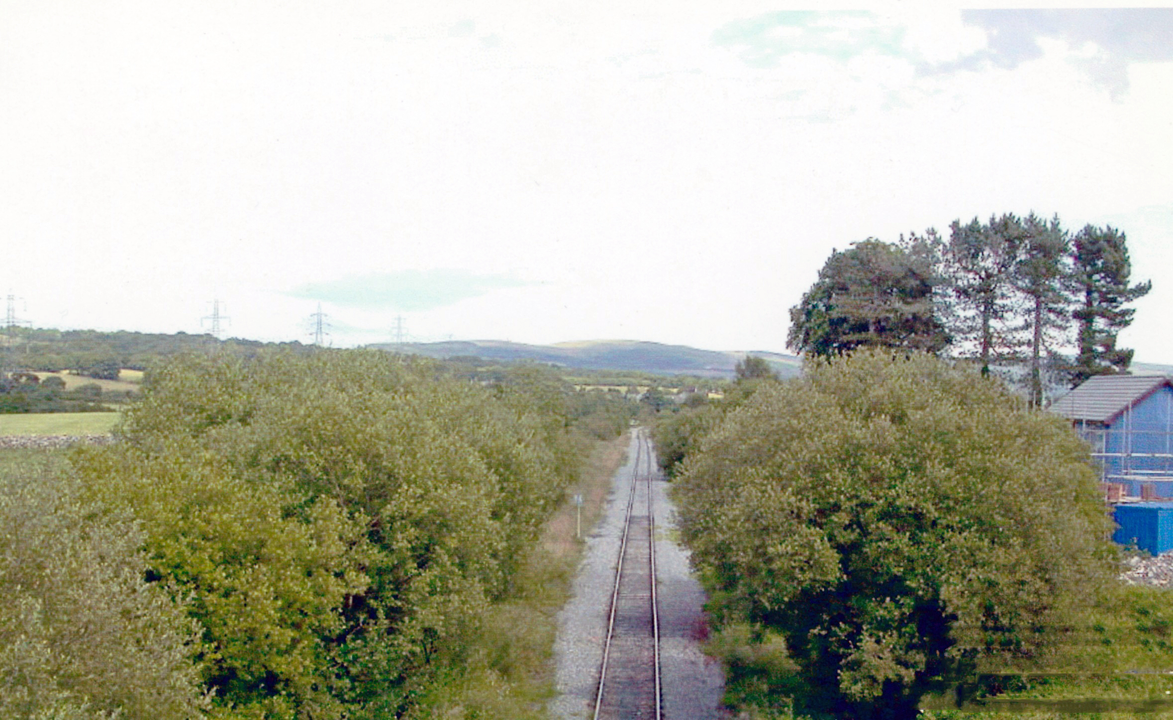 Site of former Hirwaun station. View eastward from A465 Heads of Valleys Road, towards Aberdare, Quaker's Yard and Pontypool Road: ex-GWR Neath - Pontypool Road line. Through passenger services and those on the branch to Merthyr ceased from 15/6/64 and most freight from 1/3/65,but continued Hirwaun Pond - Glyn Neath until 6/11/67 and eastward traffic from Tower Colliery to Aberdare remains.